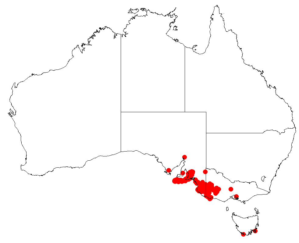 Hakea rostrata Occurrence data downloaded from Australasian Virtual Herbarium on 22 November 2018 using